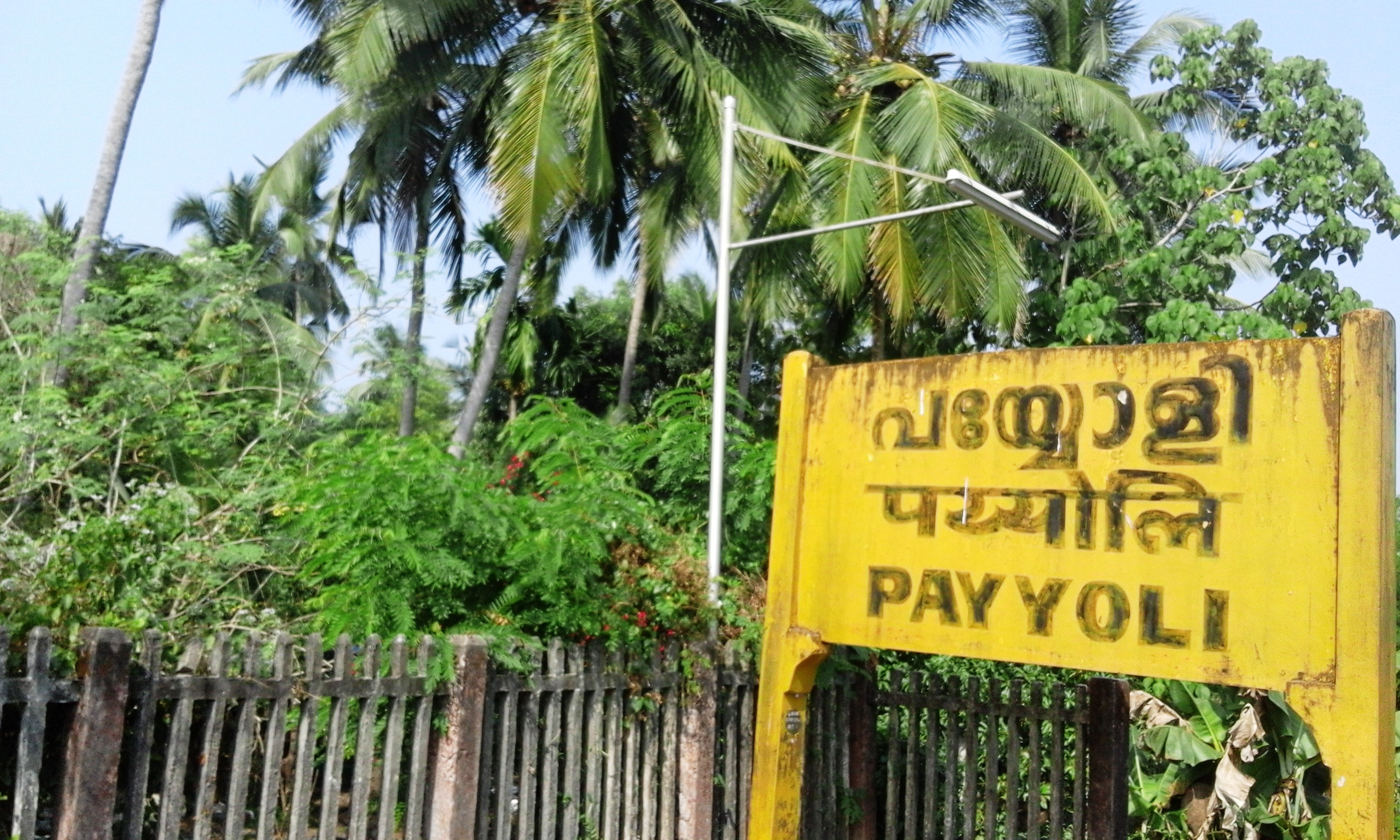 Kozhikode District, Kerala, India.